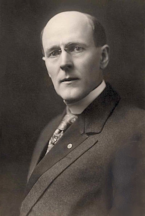 Photo for biography of Paul Percy Harris